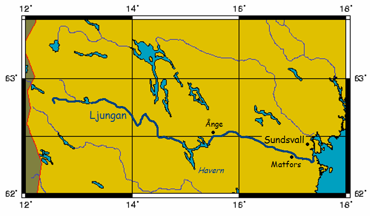 Map of the river Ljungan, Sweden map made by User:Nordelch with help of